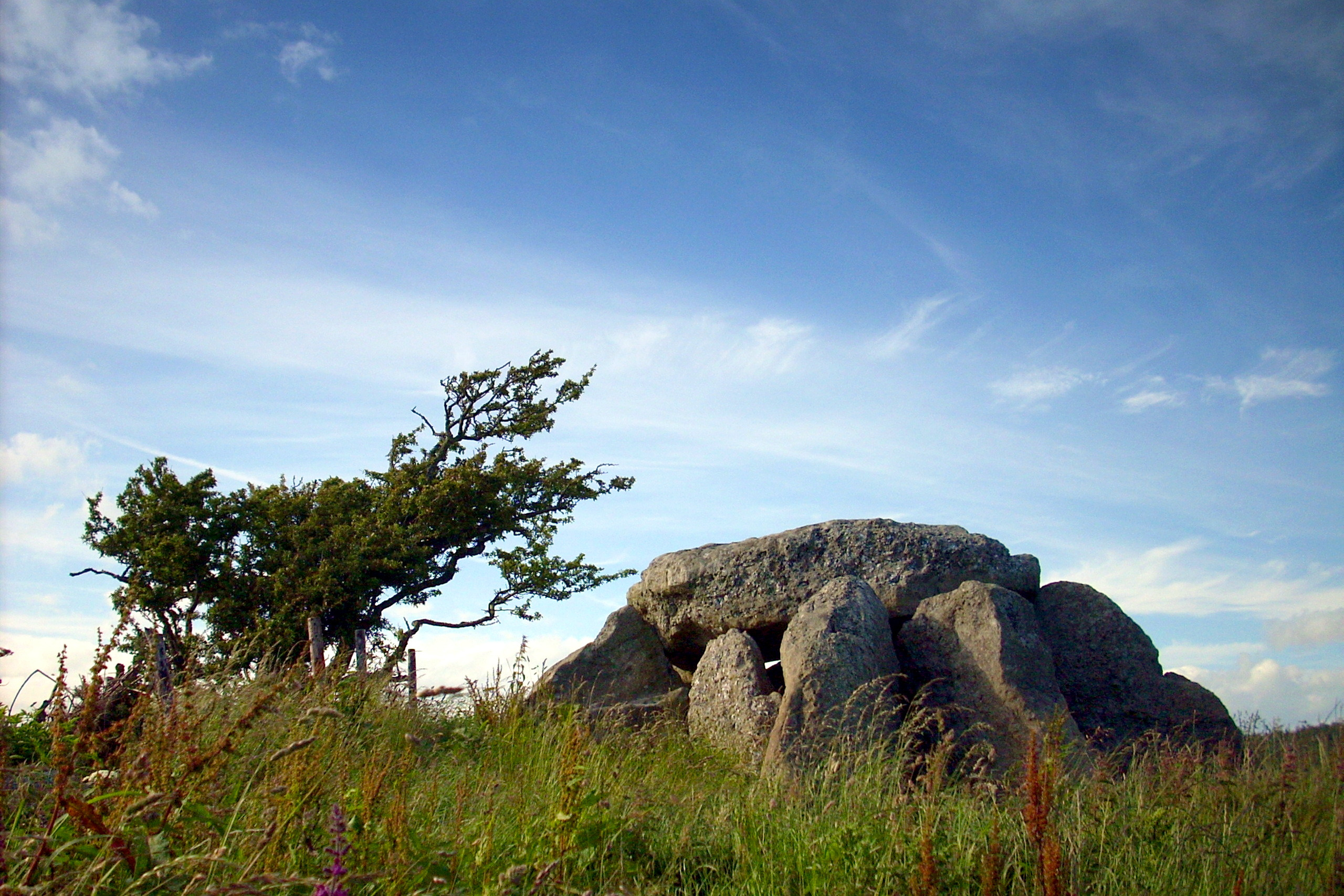 The Hellstone - a reconstructed prehistoric burial chamber, on the chalk hills above Portesham.